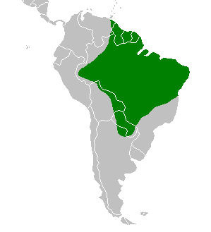 Toco Toucan range. Note: This map is highly misleading and should not be used. For example, the species is absent from most of the Amazon and the Caatinga, but it is found southeast Brazil, most of the northern half of Bolivia and northeastern Argentina. An accurate map can be seen on e.g. Infonatura/Natureserve or wikiaves (the latter for Brazil only)